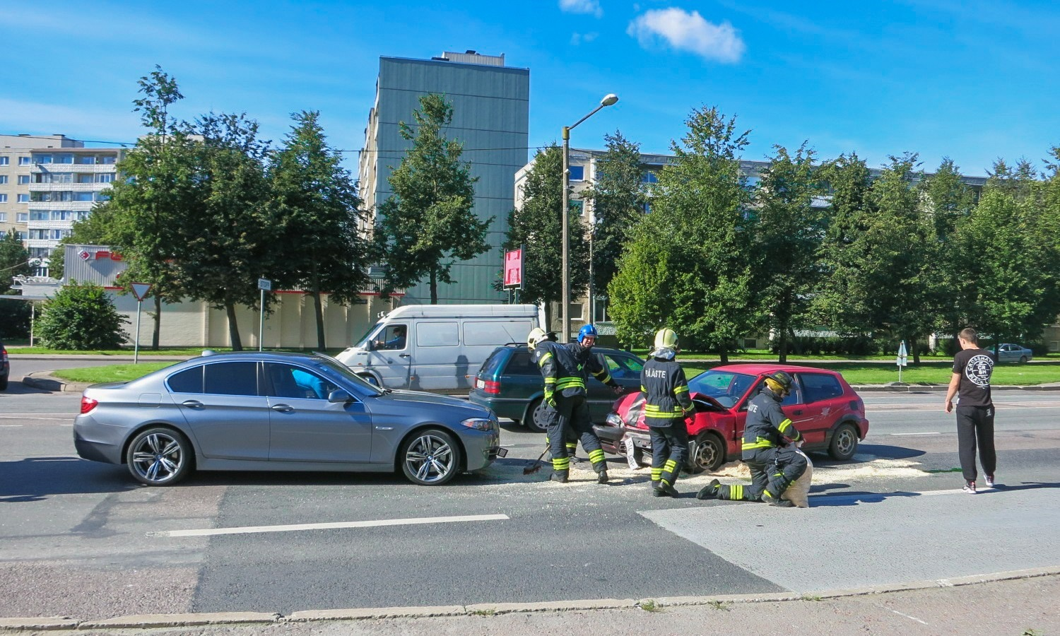 Rescue service at work after carcrash. (Tallinn, Estonia)